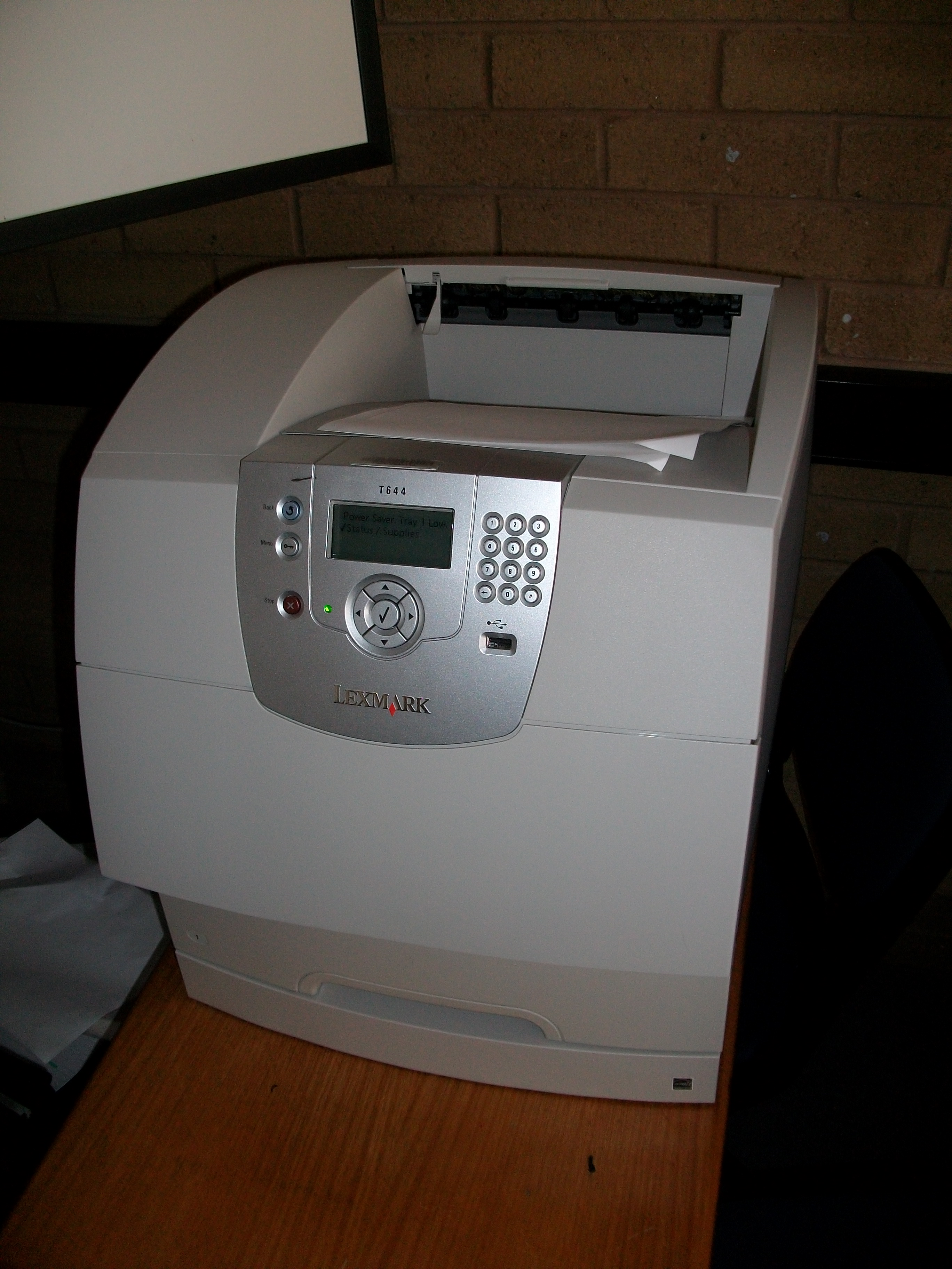 Lexmark T644 laser printer.